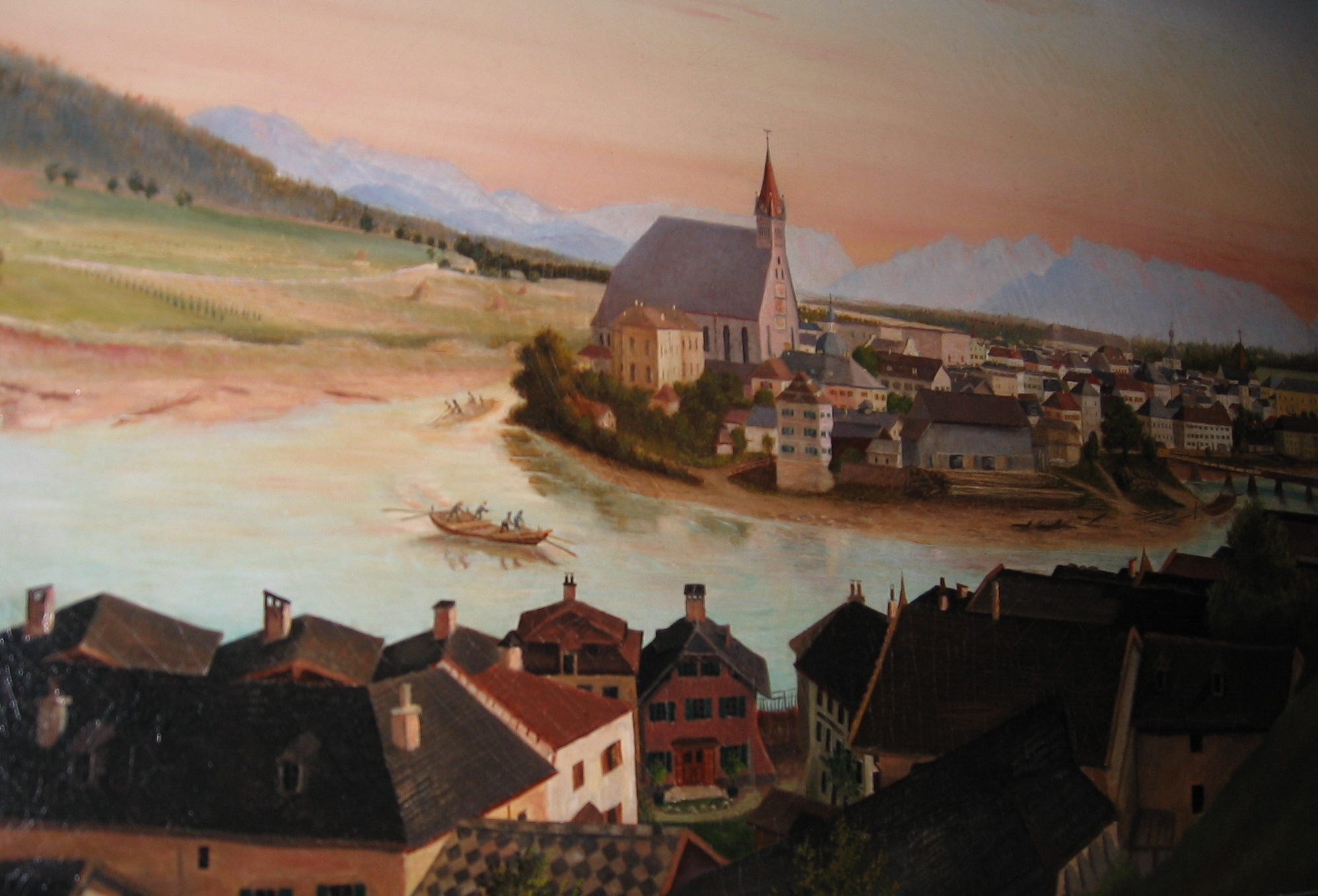 Salzach river bend with Laufen in the background, Oberndorf Altach in the foreground. Photograph by Gakuro. Courtesy of Silent Night musem.